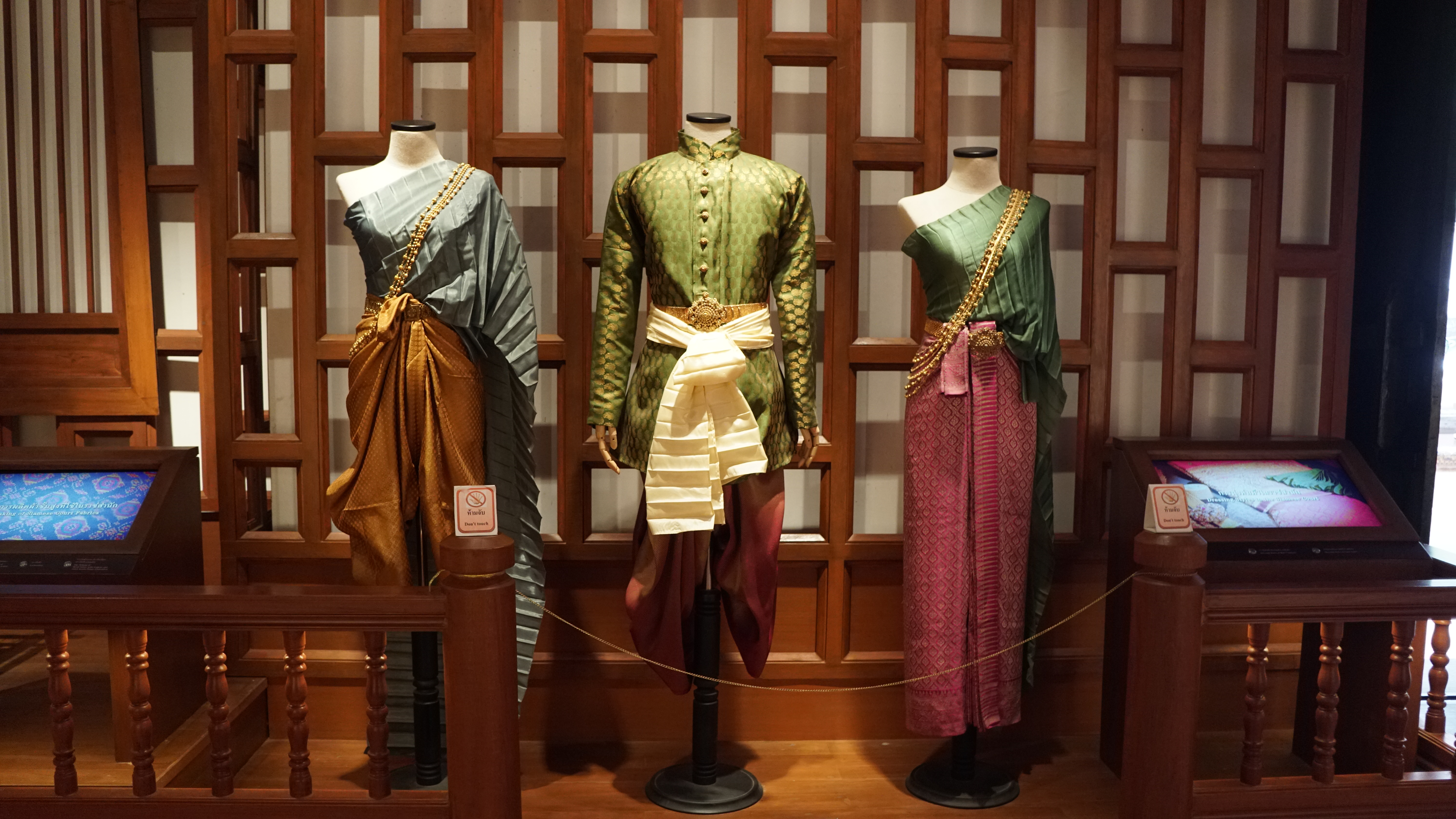 Traditional clothes